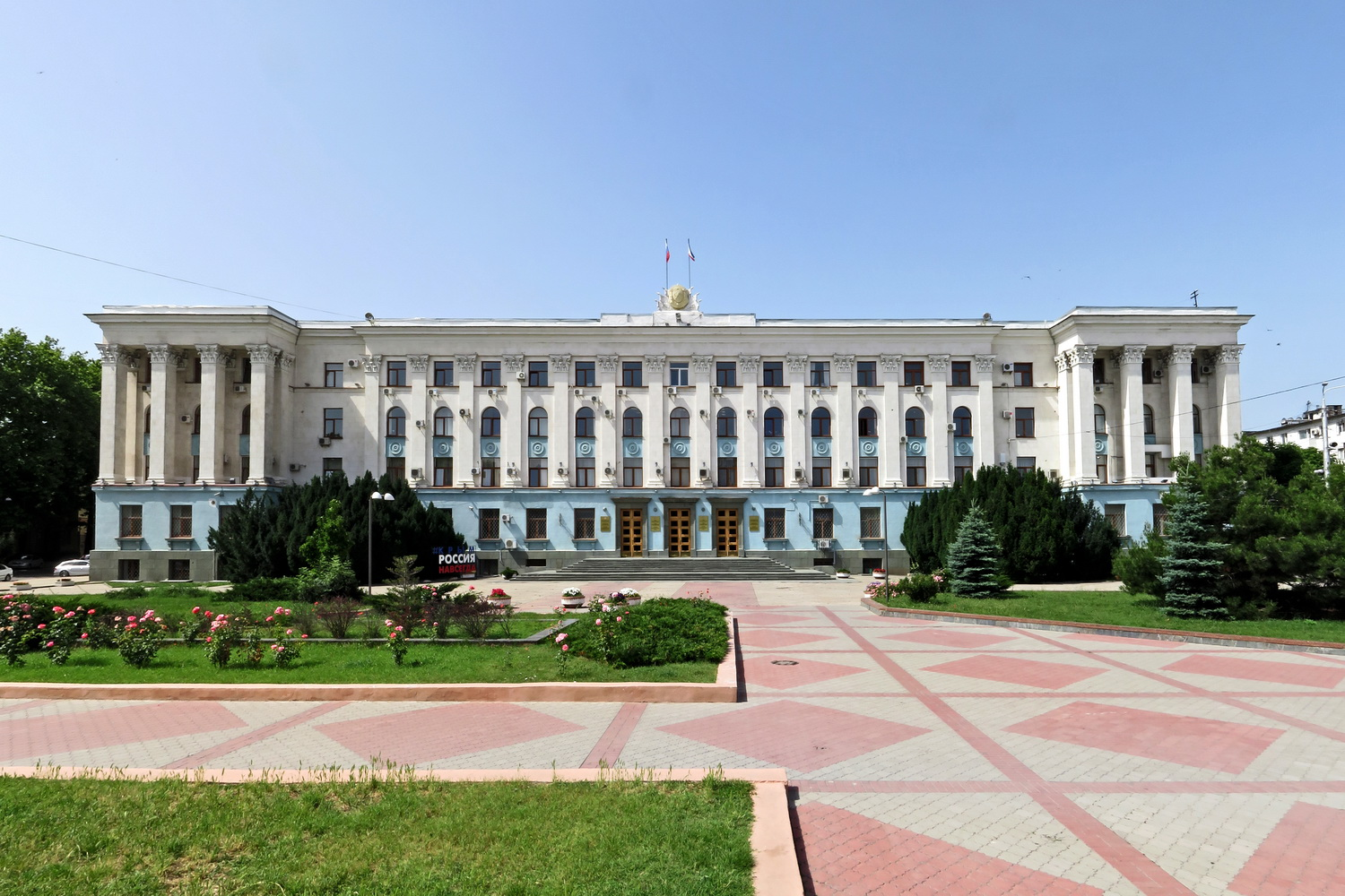 Simferopol, Council of ministers of Crimea. Lenin Square.